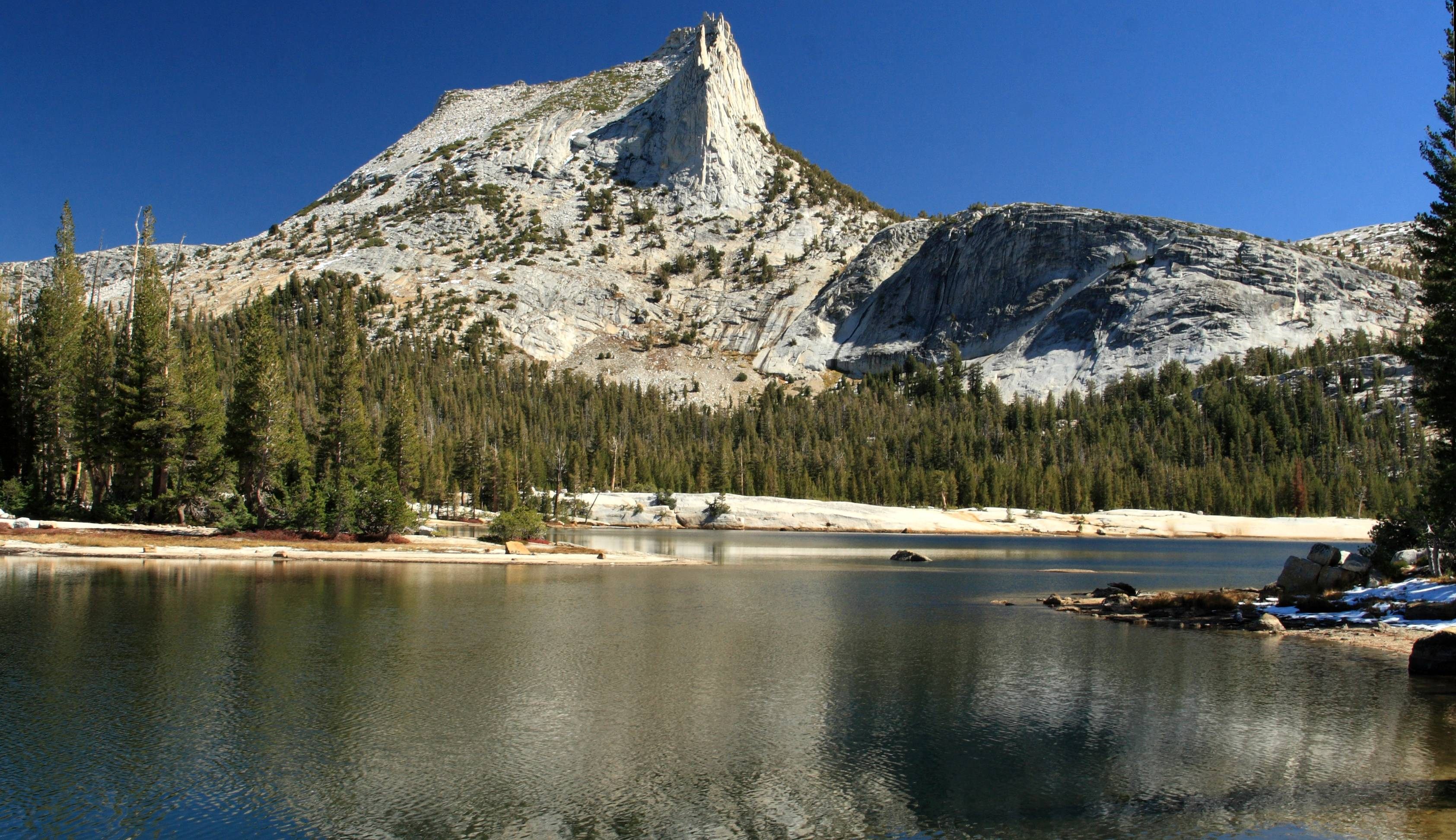 Cathedral Lakes in Yosemite National Park, October 2008.